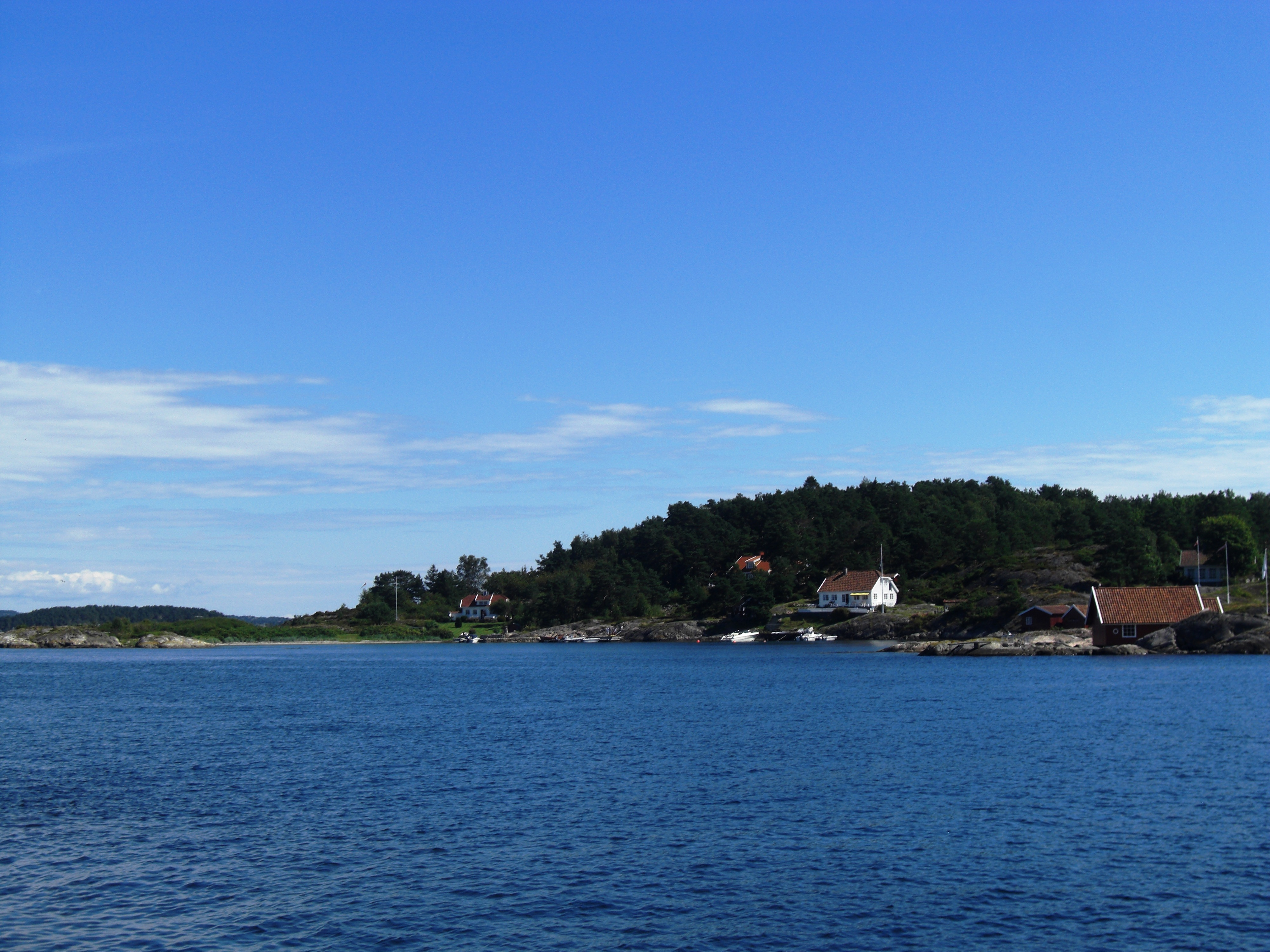 Bjorøya